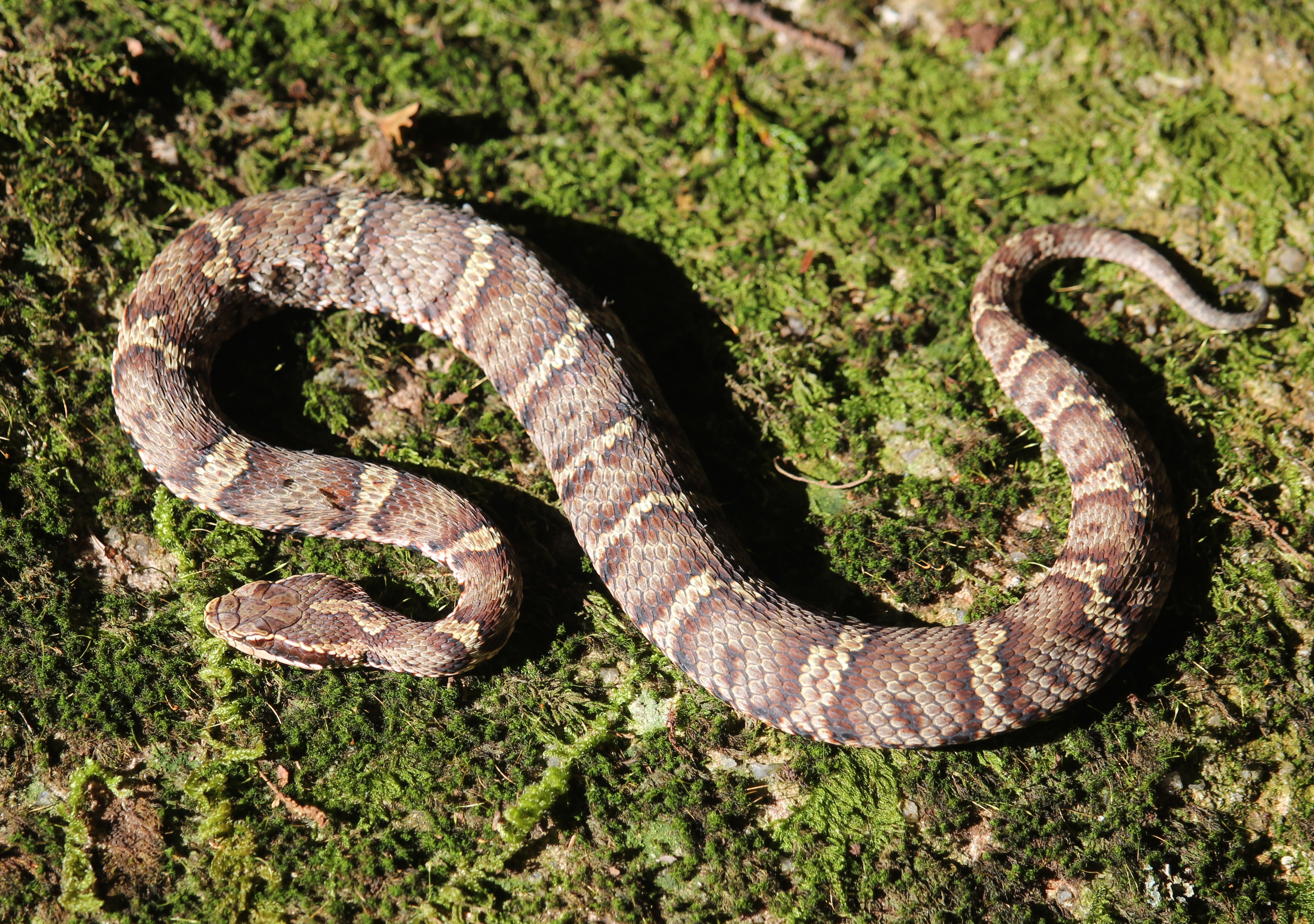 Gloydius blomhoffii on Mount Tengura, in Mie prefecture, Japan.